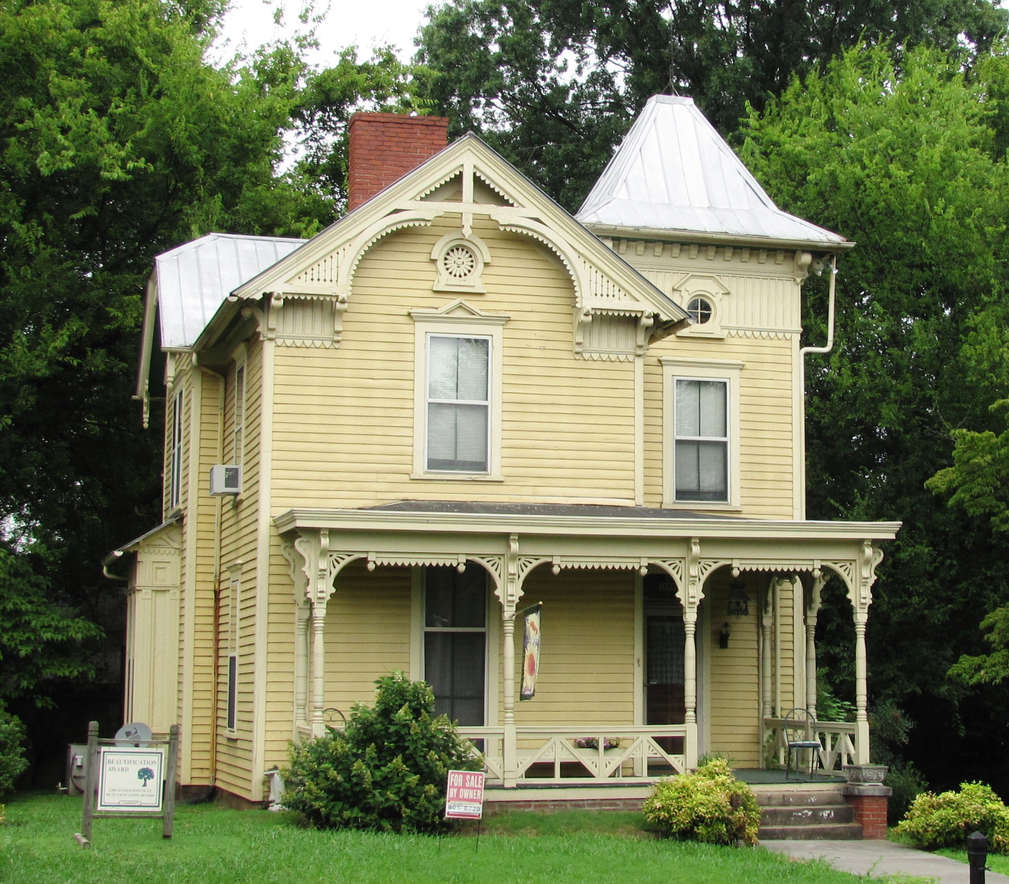 House at 1007 Oak Avenue in the Mechanicsville neighborhood of Knoxville, Tennessee, USA. Built circa 1890, this house now a contributing property within the NRHP-listed Mechanicsville Historic District.